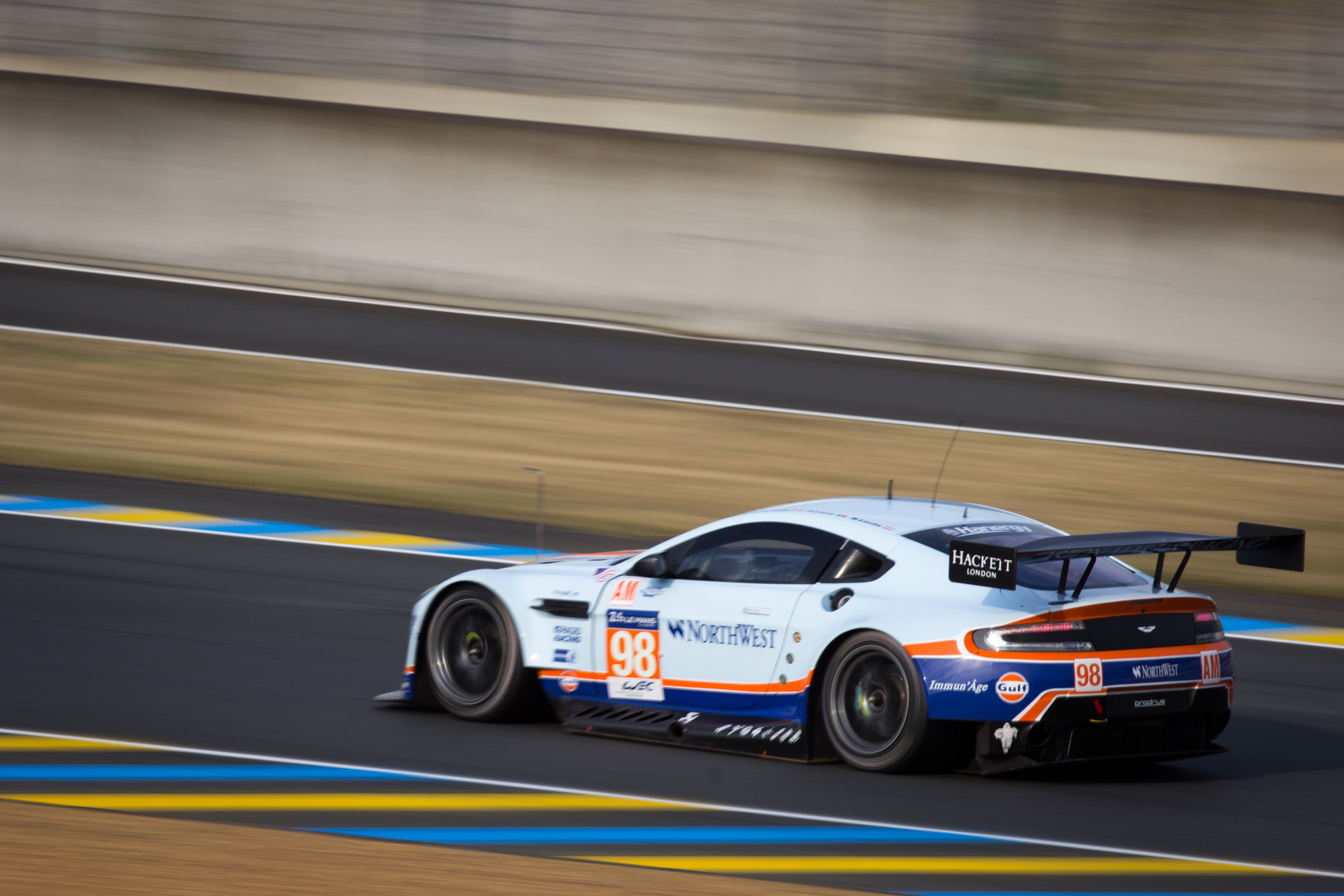 Drivers: Paul Dalla Lana, Pedro Lamy, Mathias Lauda